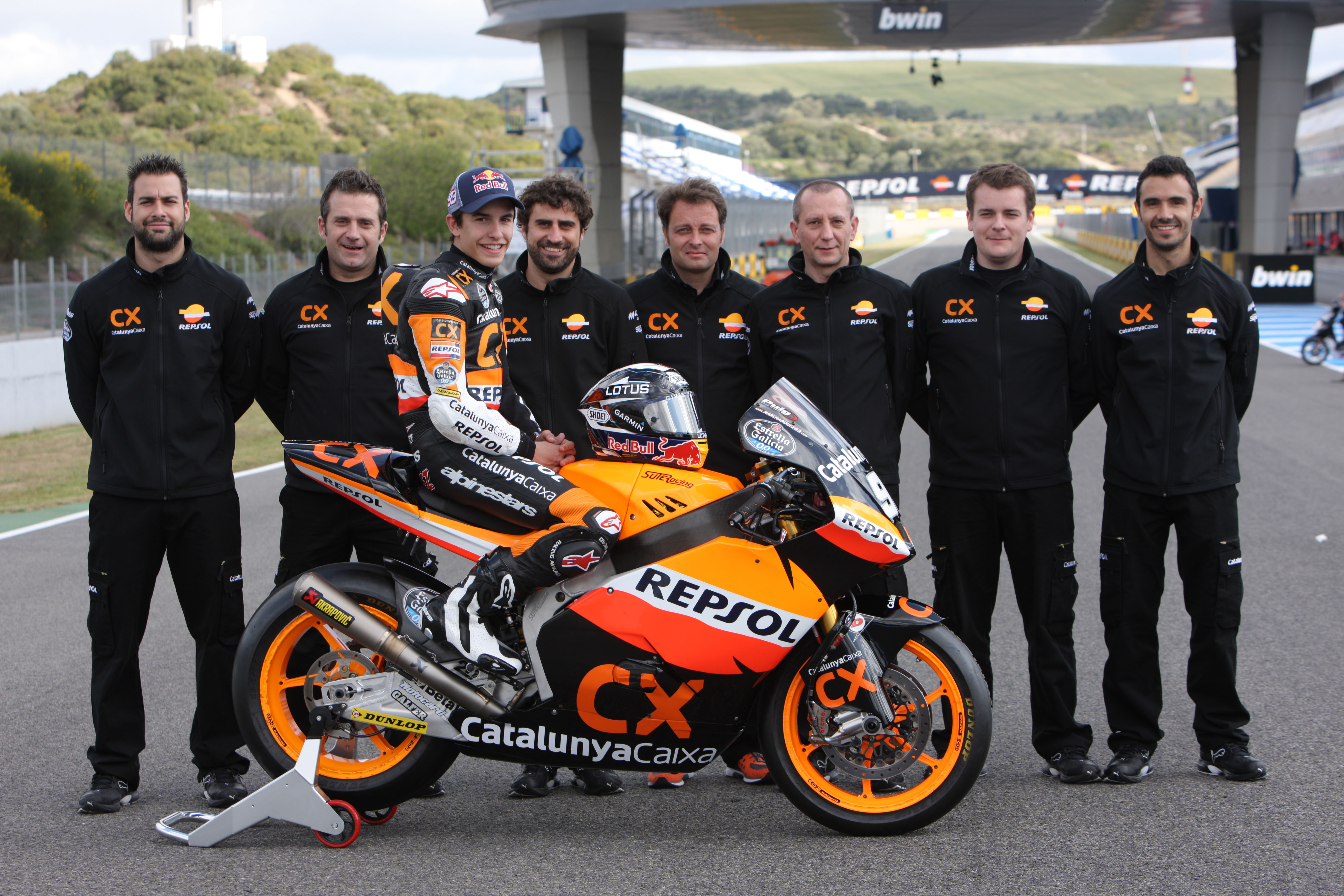 Marc Márquez, sitting on his Moto2 CatalunyaCaixa Repsol Suter, posing for the press with his team at the 2012 Spanish Grand Prix.